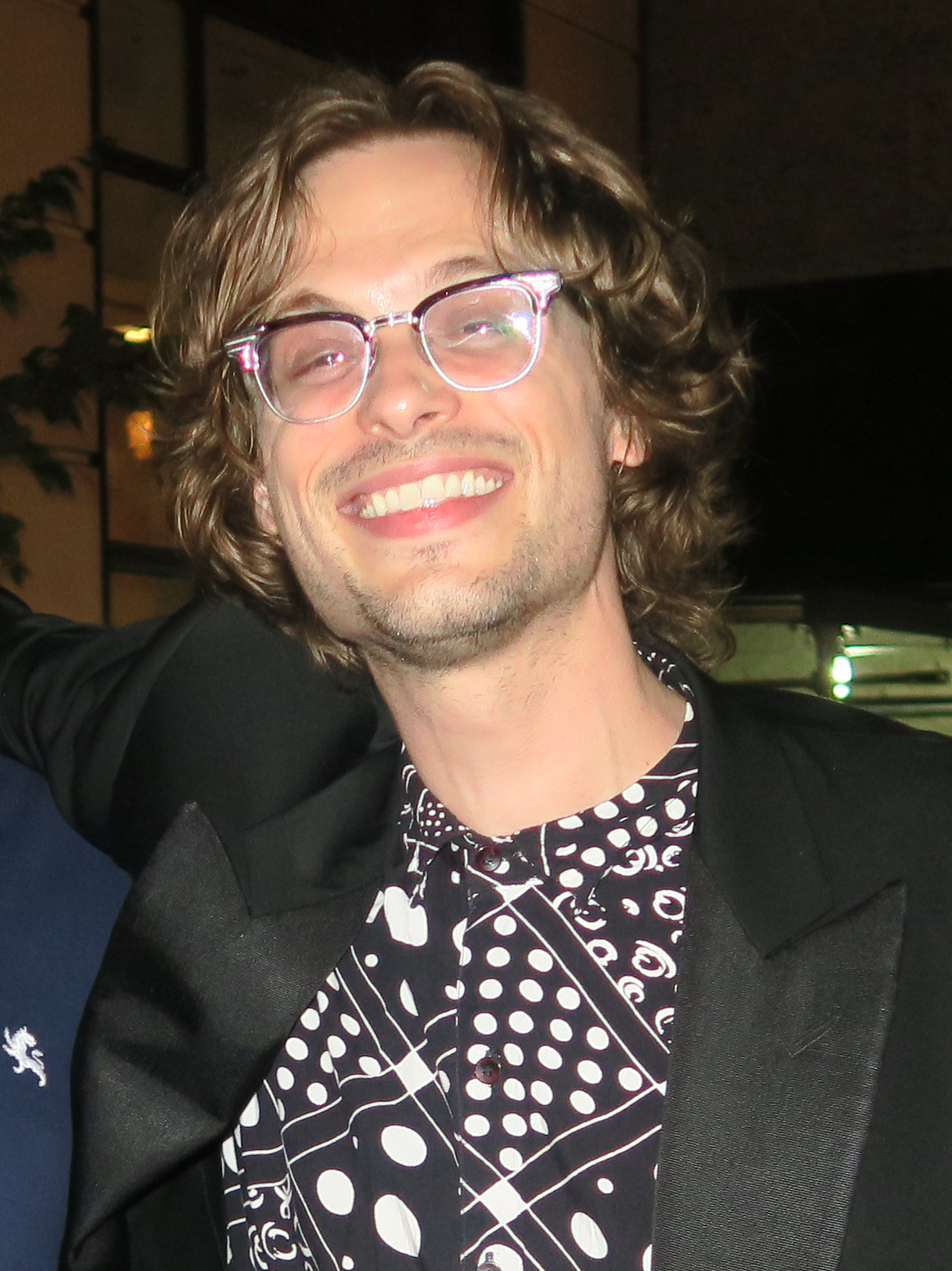 Matthew Gray Gubler cropped from a fan's greeting photograph in New York, 2017